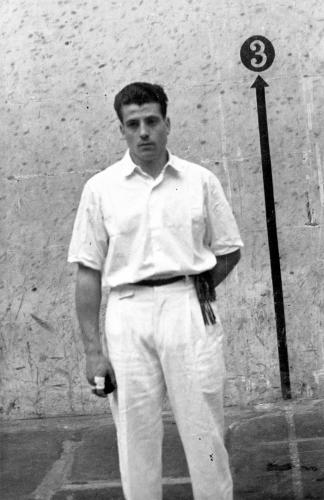 The pelotari Barberito I in 1960